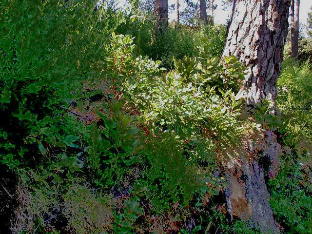 Strawberry Tree (Arbutus unedo) as pioneer in its natural habitat on Corsica.